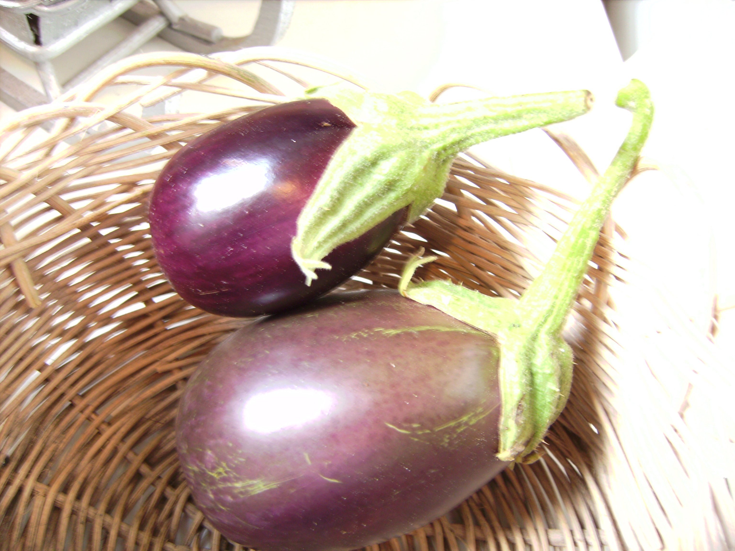 Eggplants, (Solanum melongena) cultivar Black round from Castelltallat, Catalonia